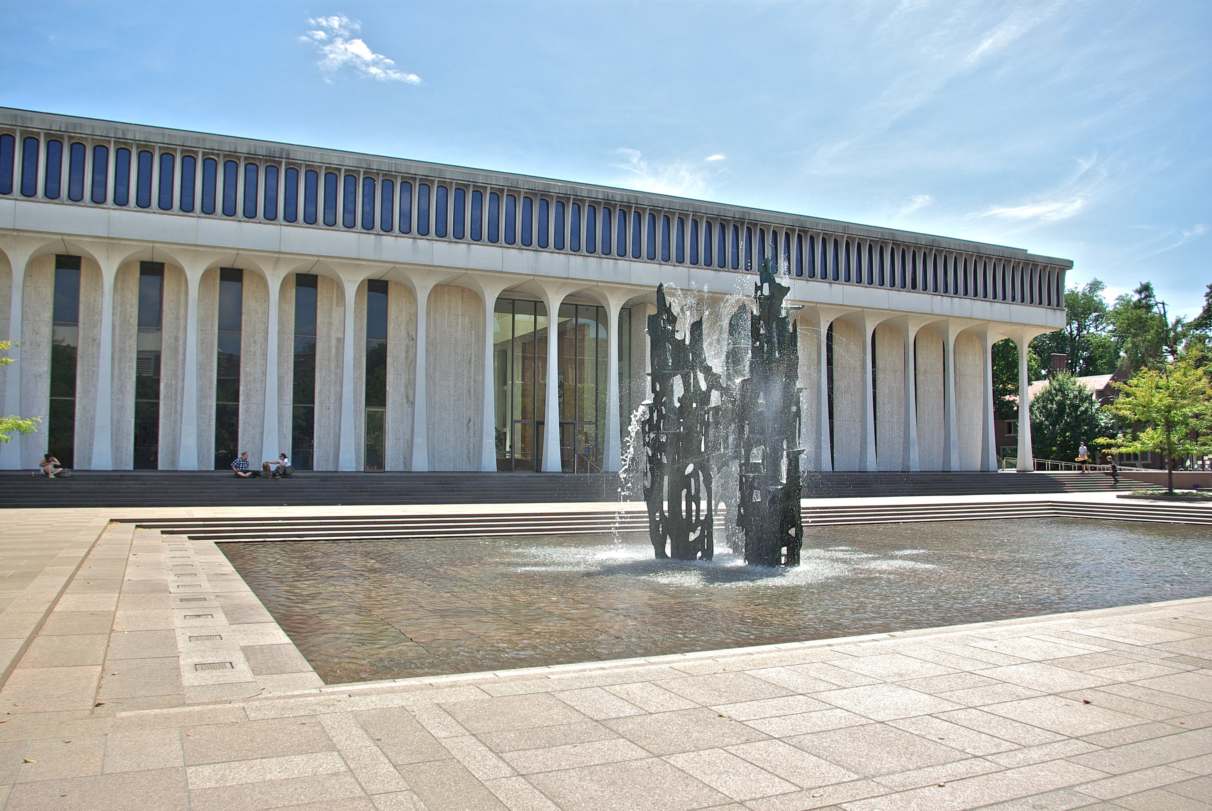 Robertson Hall, home to Princeton University's Woodrow Wilson School of Public and International Affairs